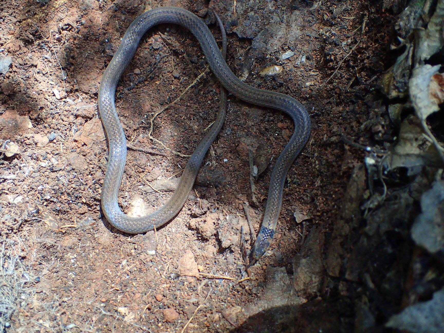 Aparallactus capensis - Black-headed Centipede-eater - 30cm. long - Seen in a forest on Mountainlands Nature Reserve, Barberton, South Africa